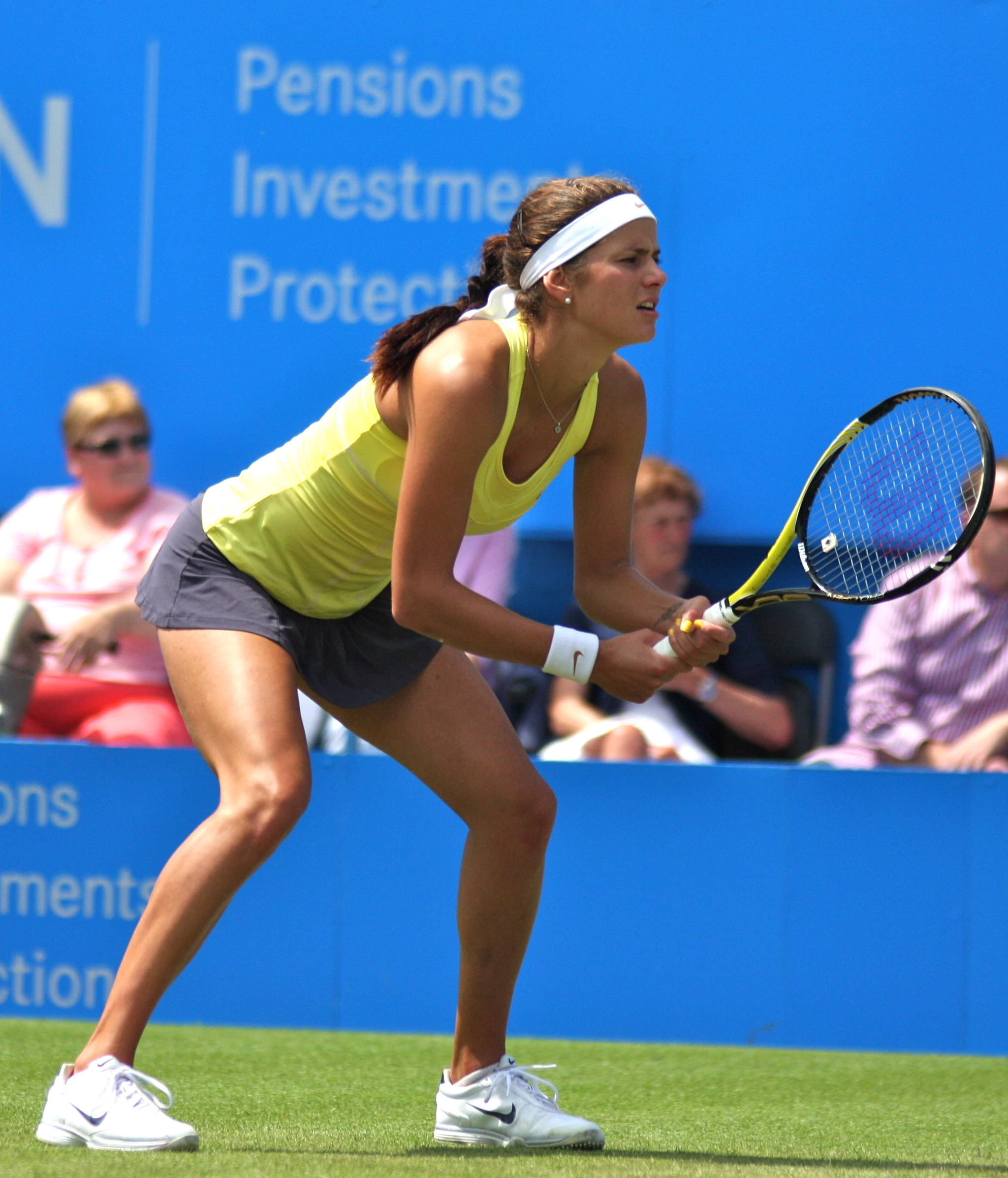 Julia Görges at the Aegon Championships, Easbourne in 2011